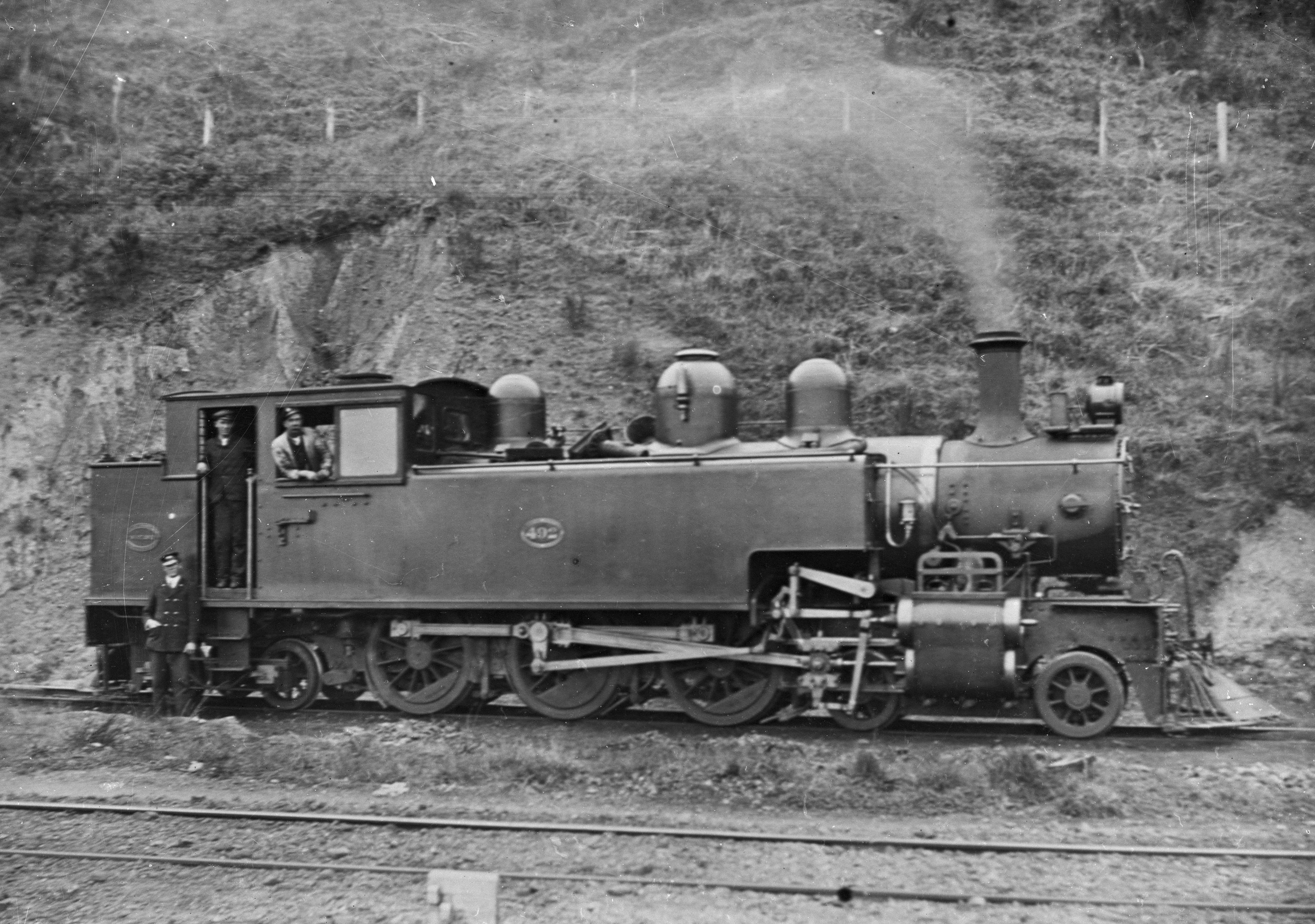 Steam locomotive 492, Wg class, type 4-6-4T, built by NZR Hillside. Three railway employees stand on the left, one on the ground. The two men standing inside the cab are identified as "Leadbetter" and "J Hosie in Godber Album (Vol 108, p 62. PA1-q-101). Photograph taken by Albert Percy Godber between 1912 and 1949 at Lower Hutt.